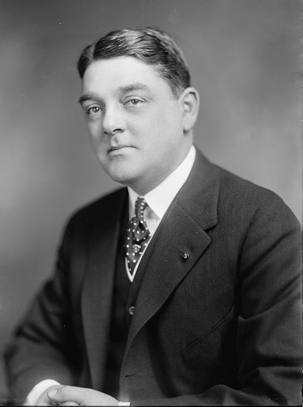 Robert D. Heaton (Pennsylvania Congressman)